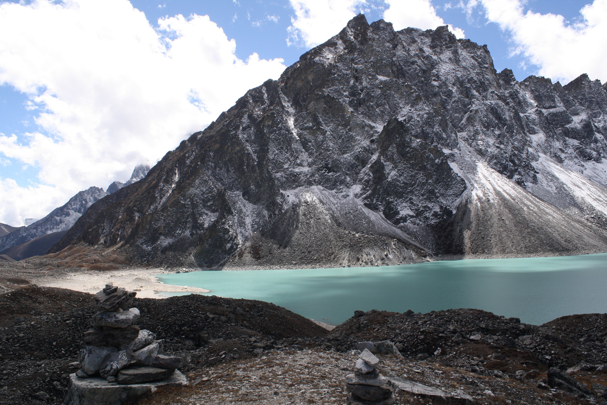 Gokyo Peak and Lake Thonak at 4870m, Nepal